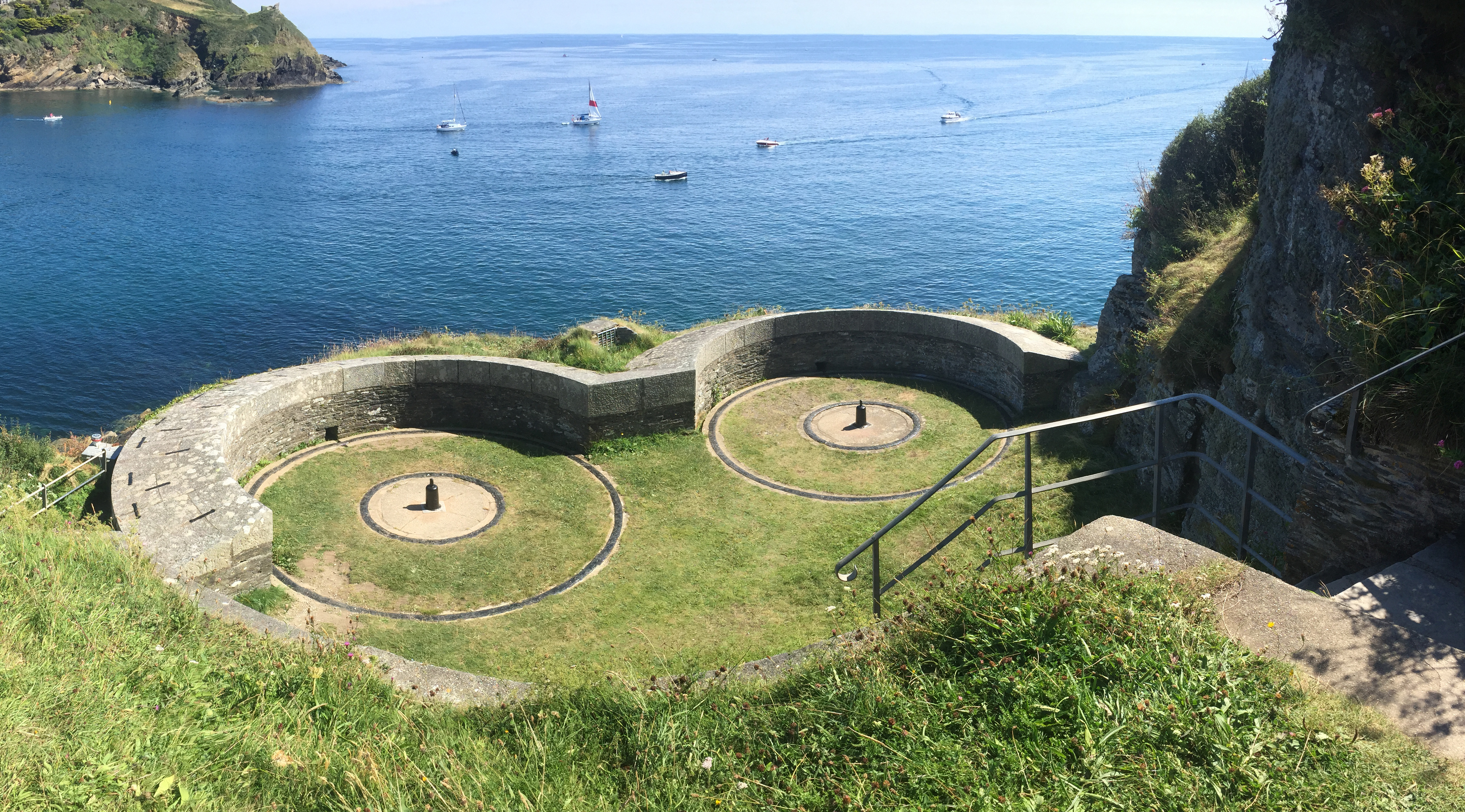 Battery at St Catherine' s Castle